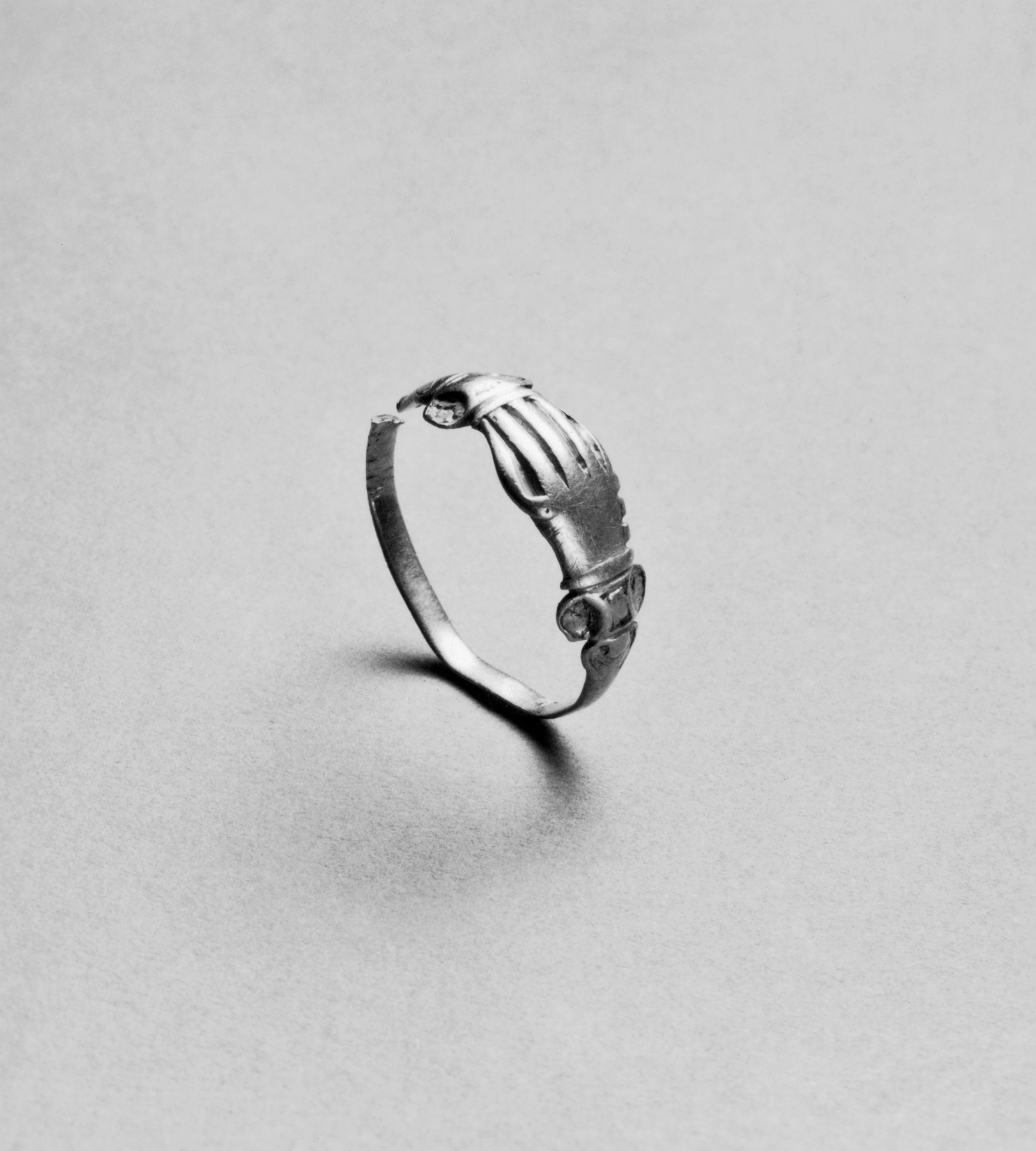 With a heart below each cuff, these clasped hands are emblematic of trust and are a traditional motif for betrothal rings and other marriage imagery.